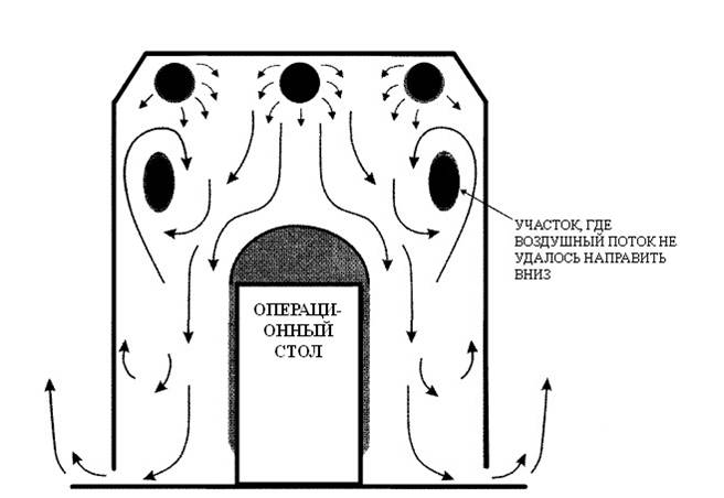 clean room history, part3